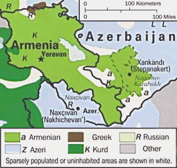 Map of ethnolinguistic groups in the Nagorno-Karabakh region.